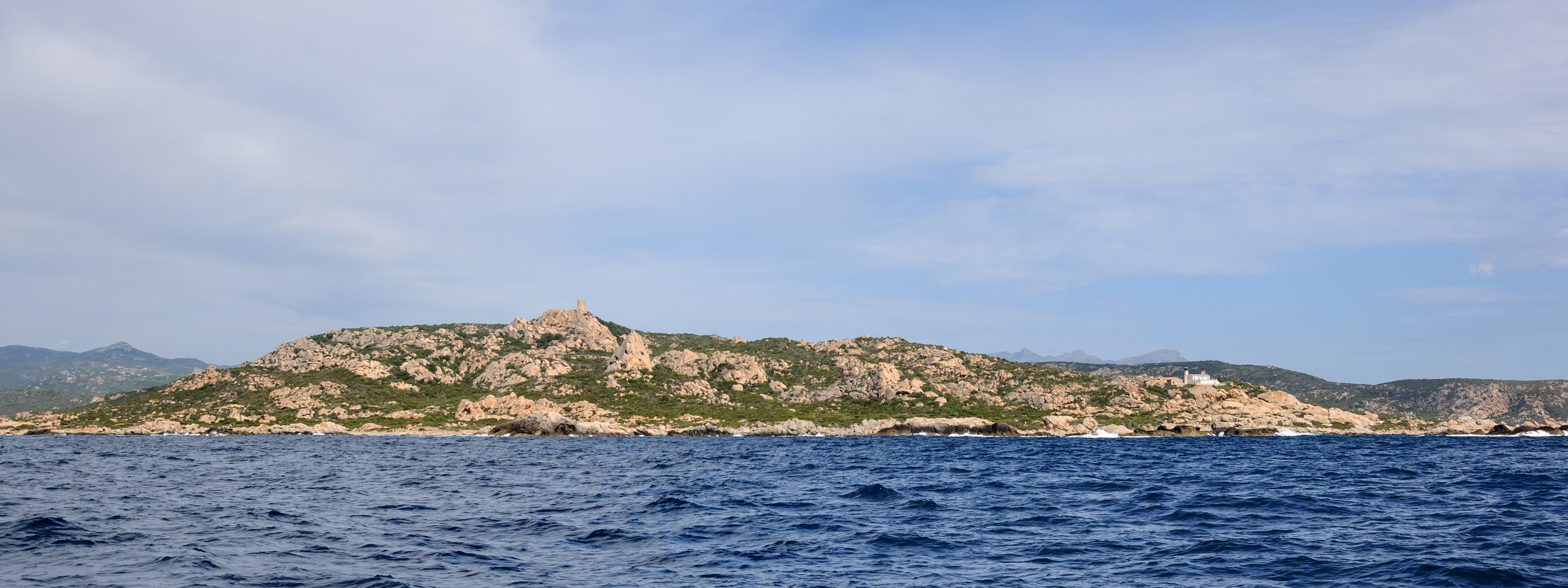 Cape Senetosa, Southern Corsica, France, where stand the Genoese tower and the lighthouse of Senetosa. Corsu: Capu di Senetosa, Corsica suttana